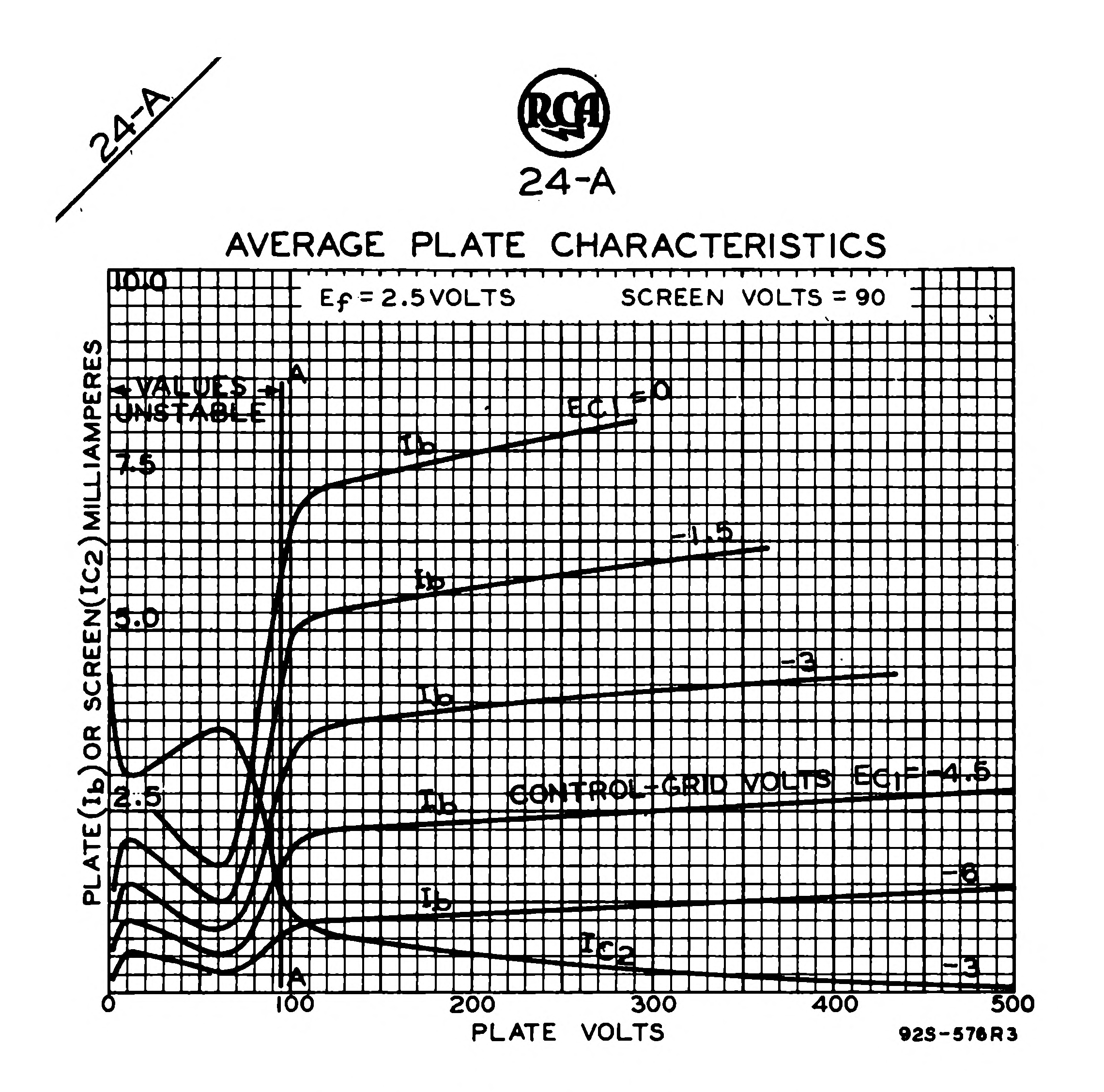 Anode characteristic curves of the RCA 24-A tetrode vacuum tube. It shows the plate current (Ib) as a function of plate voltage for different values of control grid voltage (EC2). The lowest curve shows the screen grid current (IC2). This early tetrode illustrates the negative resistance "kink" in the plate current (labeled "values unstable") caused by secondary emission of electrons from the plate, that caused instability and parasitic oscillations in early tetrodes. Modern tetrodes have a coating on the plate which suppresses secondary emission, eliminating the "kink".